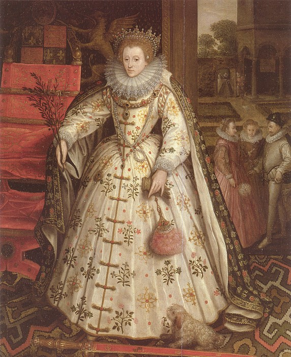 The Wanstead or Welbeck Portrait of Elizabeth I of England as Pax holding an olive branch and standing on the sword of Justice. It is said by Daniel Lysons (The Environs of London, 1796, vol 4, pp.231-244) to depict Old Wanstead House in the background. The picture it must be assumed hangs at or formerly hung at Welbeck Abbey.